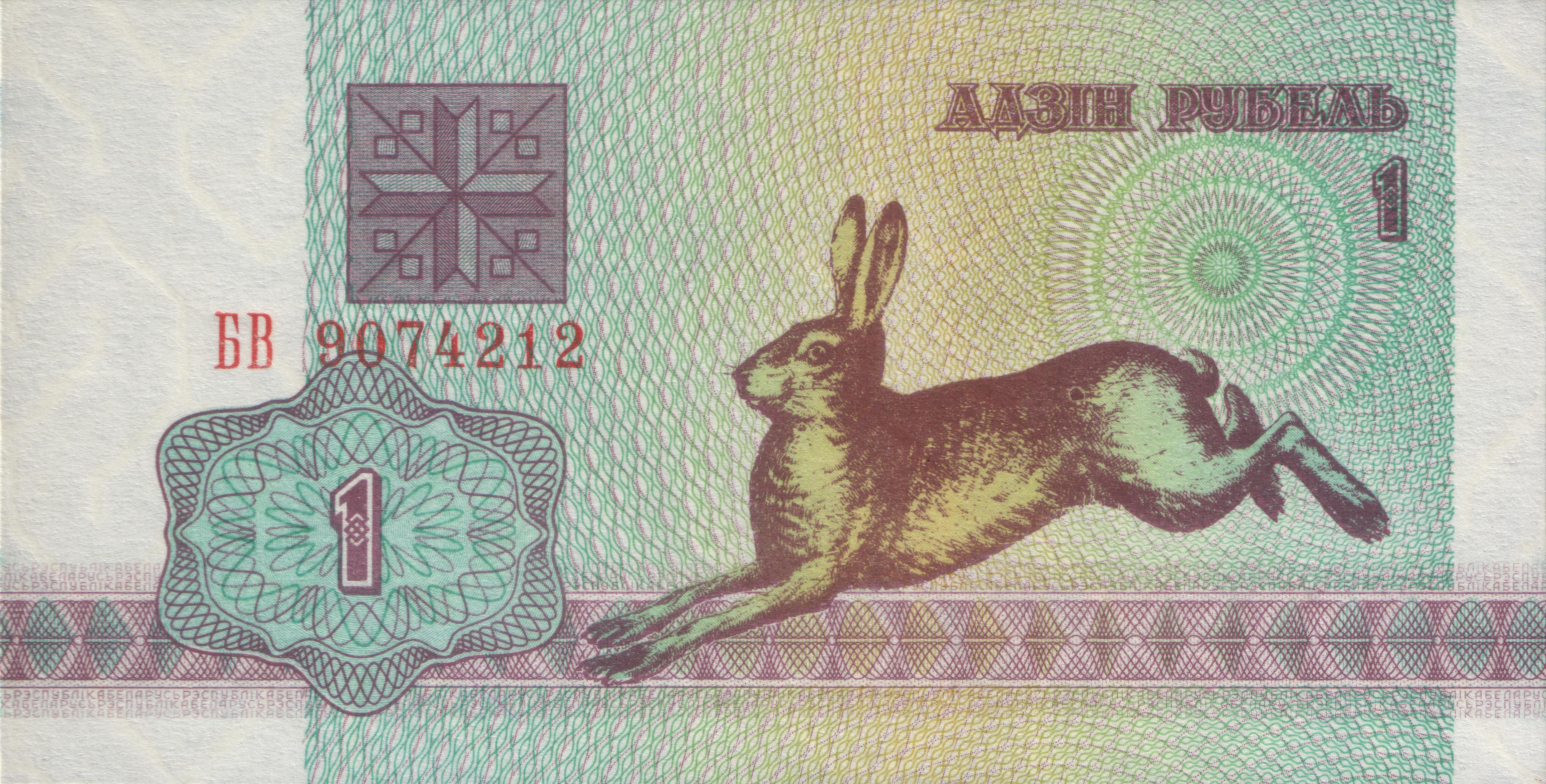 1 rouble of Belarus (1992)